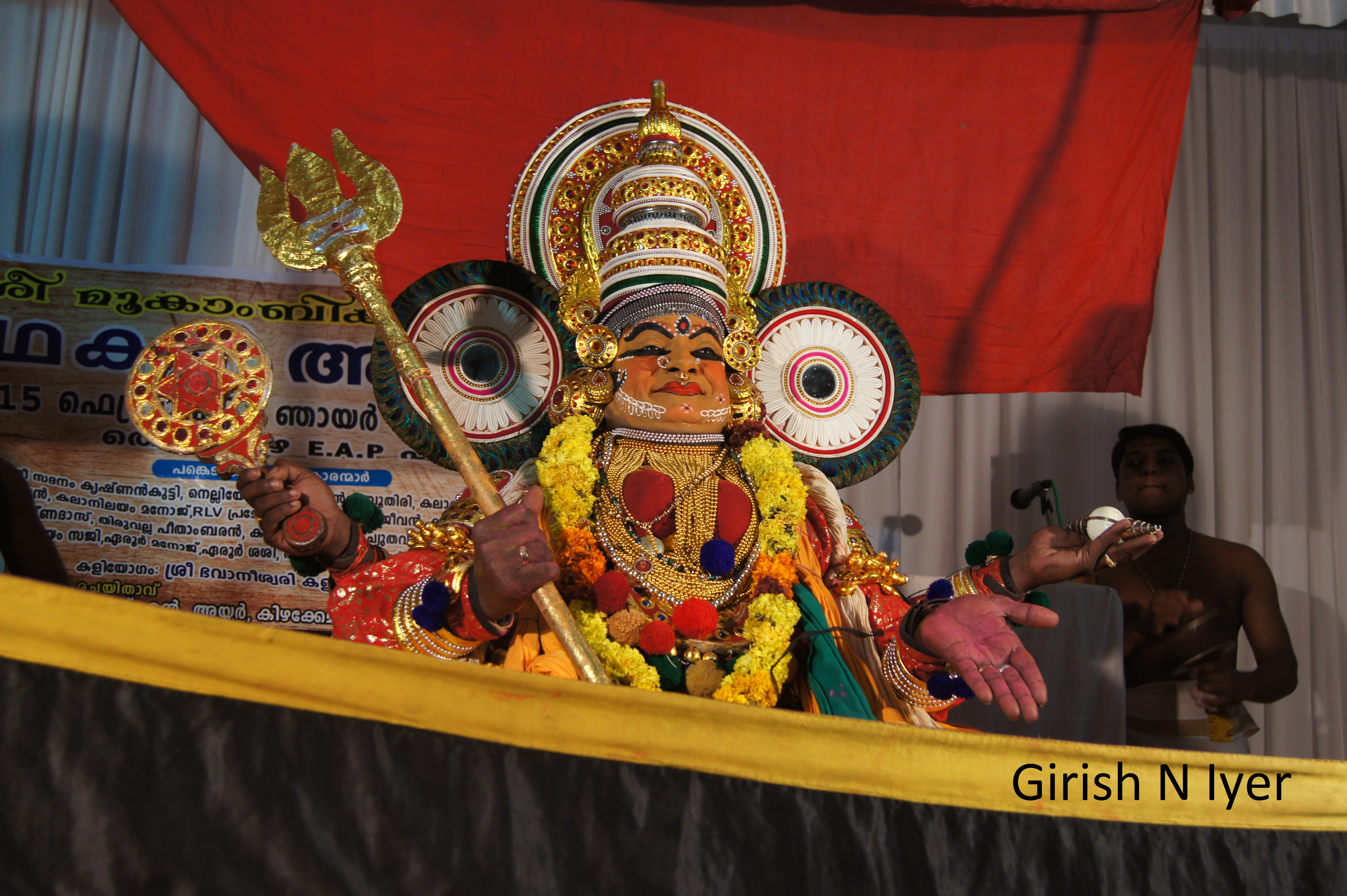 Sadanam krishnankutty as Adiparasakthi in Srimookambikamahathmyam aattakatha held on 8 February 2015 at Thodupuzha